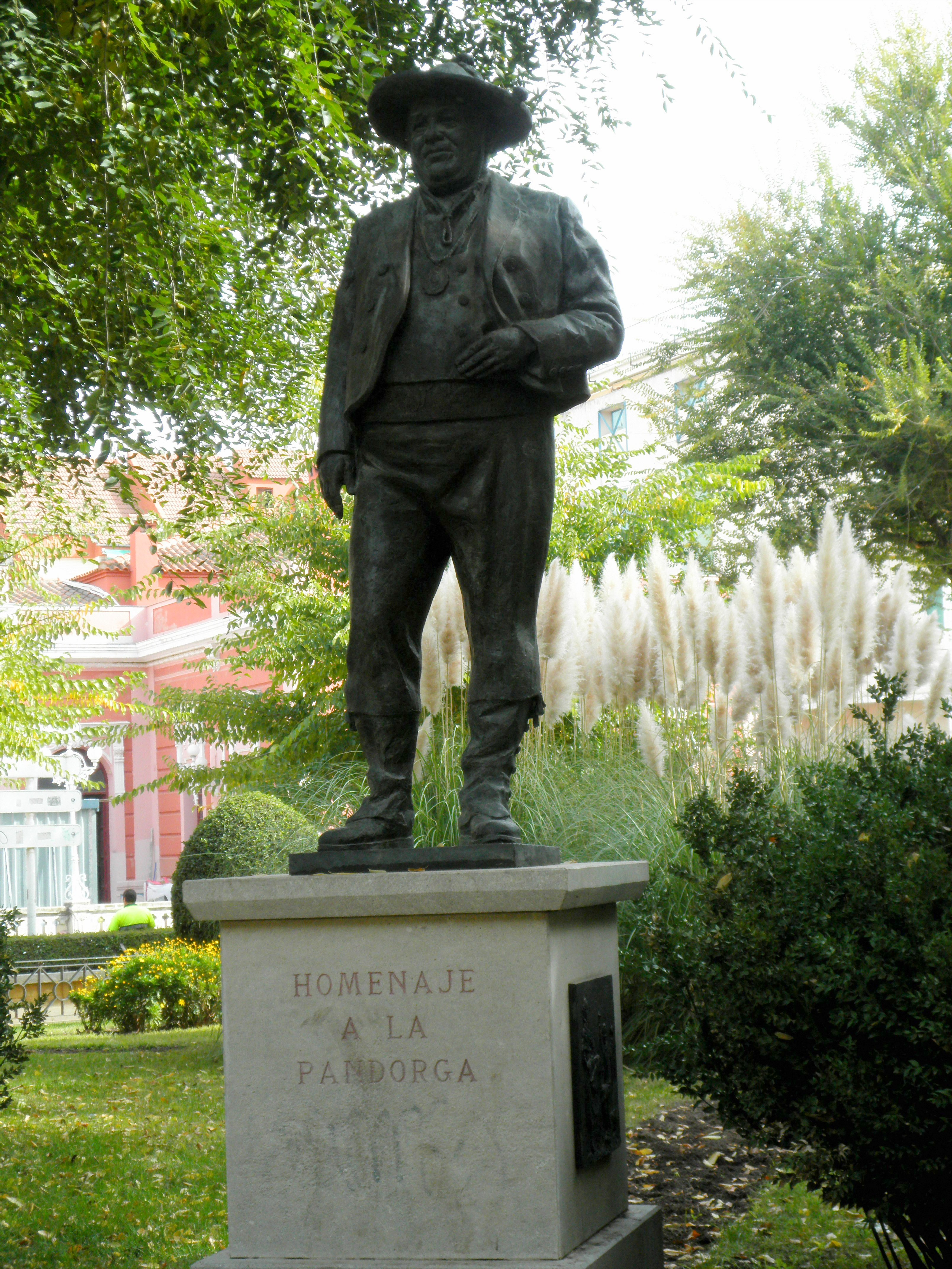 Homenaje a la Pandorga, Jardines El Prado (Ciudad Real), Spain